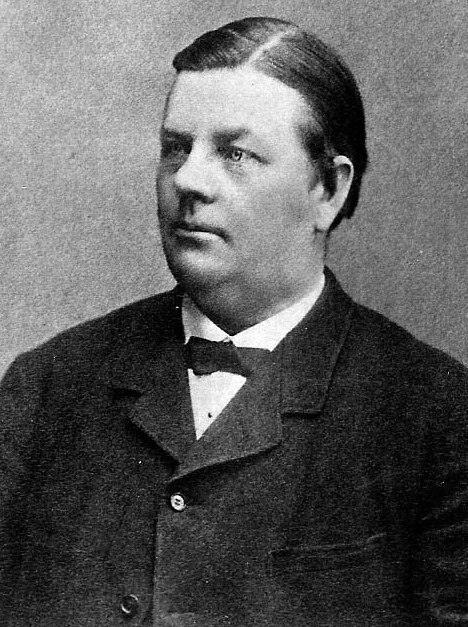 Portrait of Carl Jehander from the Internet-Site "historiskt.nu"